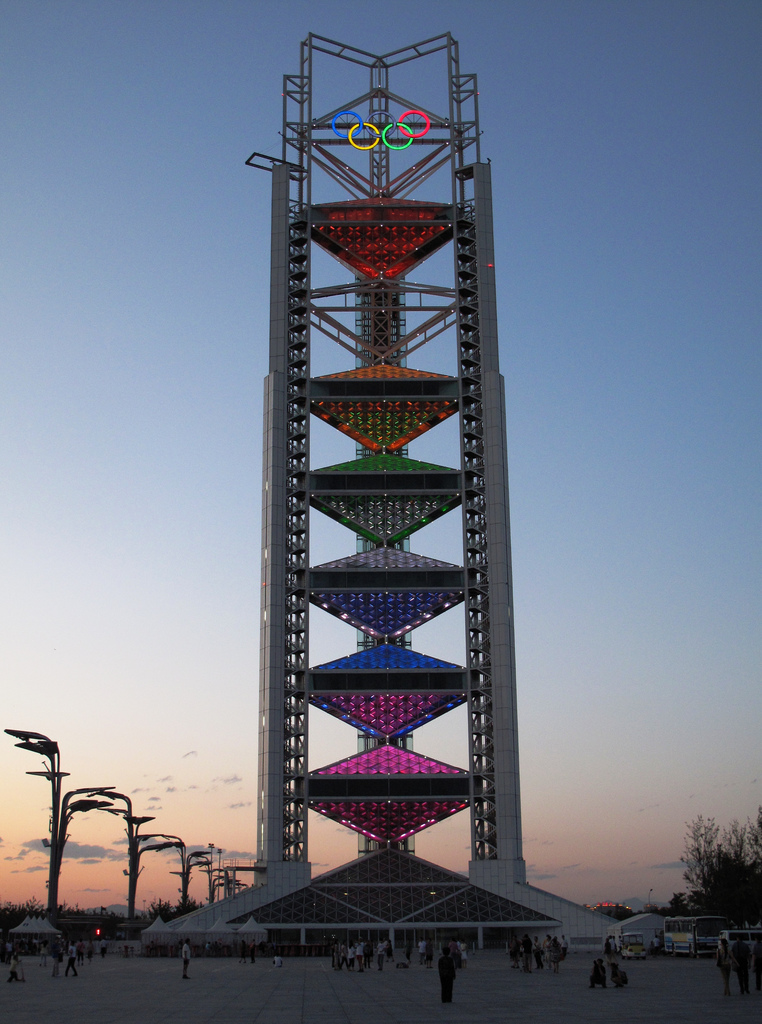 Ling Long Pagoda — a multifunctional studio tower on the Olympic Green in Beijing.